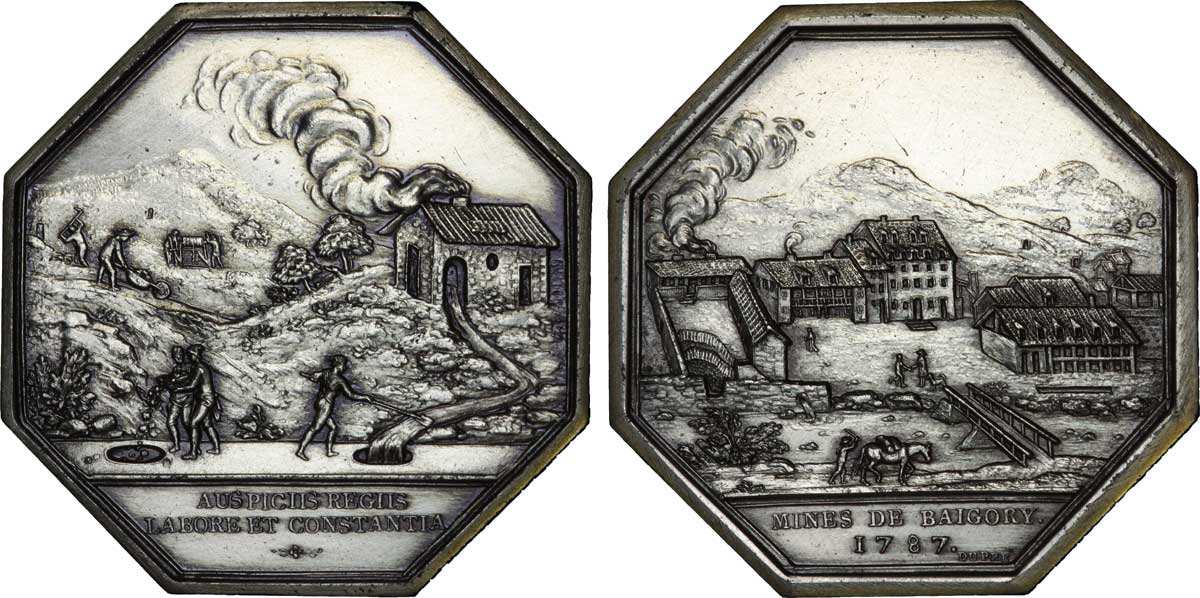 Mines et forges de Baigorry, original de 1787 refrappé en 1970. Description revers : Scène représentant l'extraction du minerai et son traitement dans les hauts fourneaux ; à droite, laveries